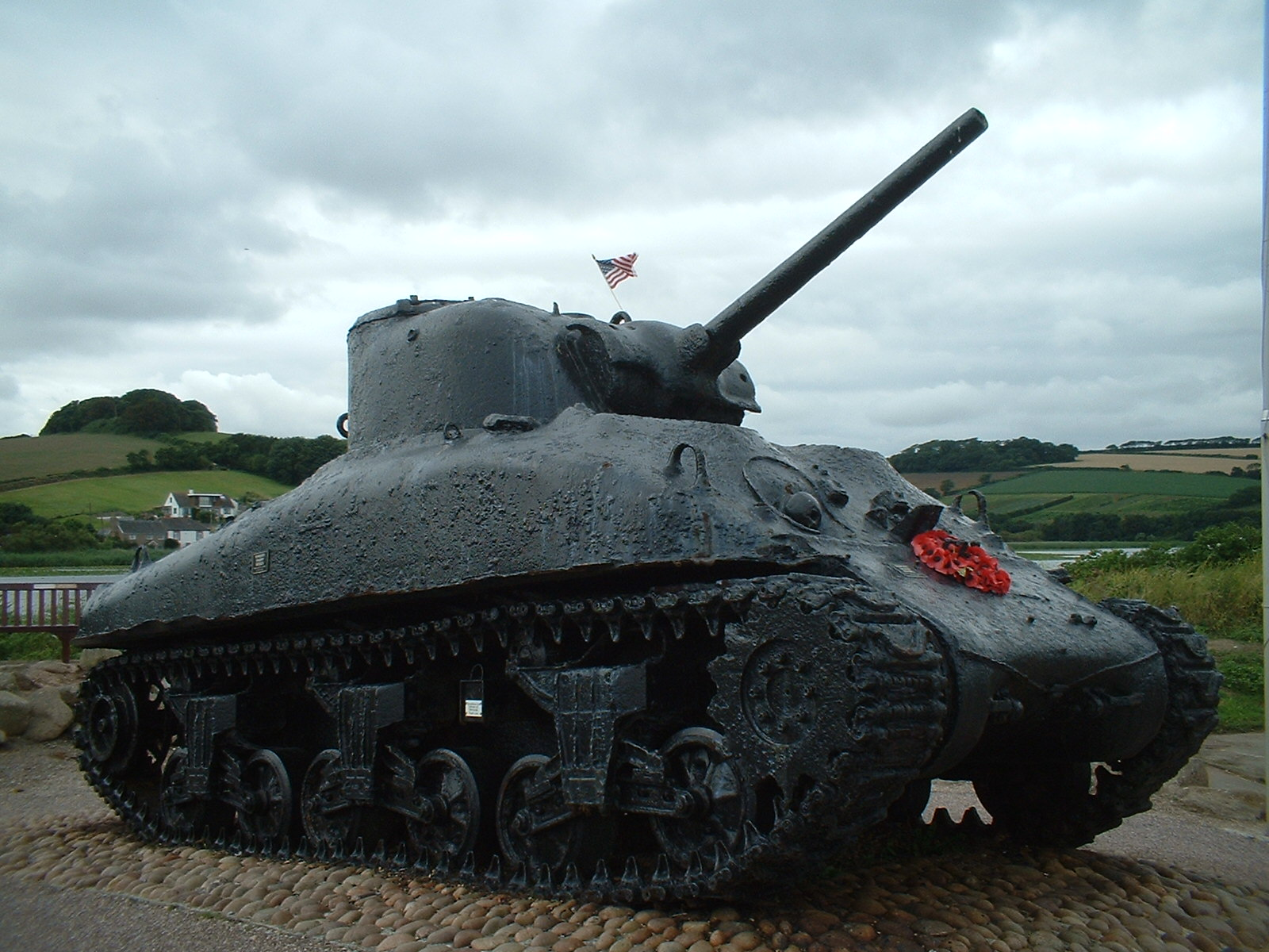 Slapton Sands, Devon at the WWII memorial for Allied Soldiers killed during Exercise Tiger. The tank was raised from the sea bed in 1984. It is a M4A1 Sherman tank.